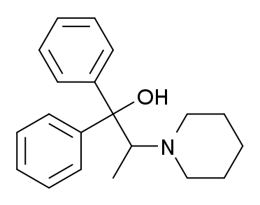 Structure of diphepanol